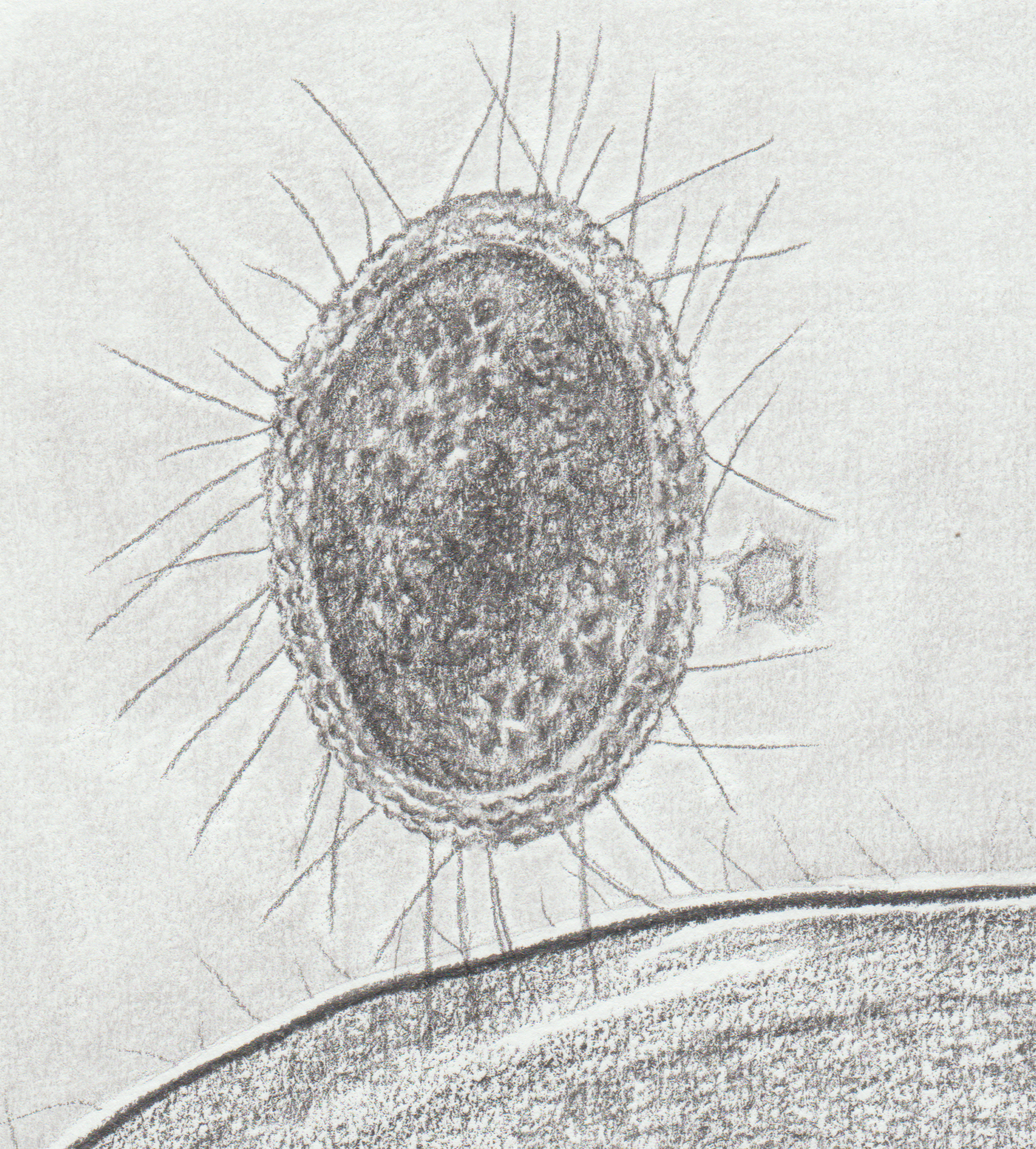 Drawing of an ultra-small groundwater CPR bacterium showing dense cytoplasm, presence of ribosomes, pili, complex wall with S layer and contact with a large bacterium and a bacteriophage.